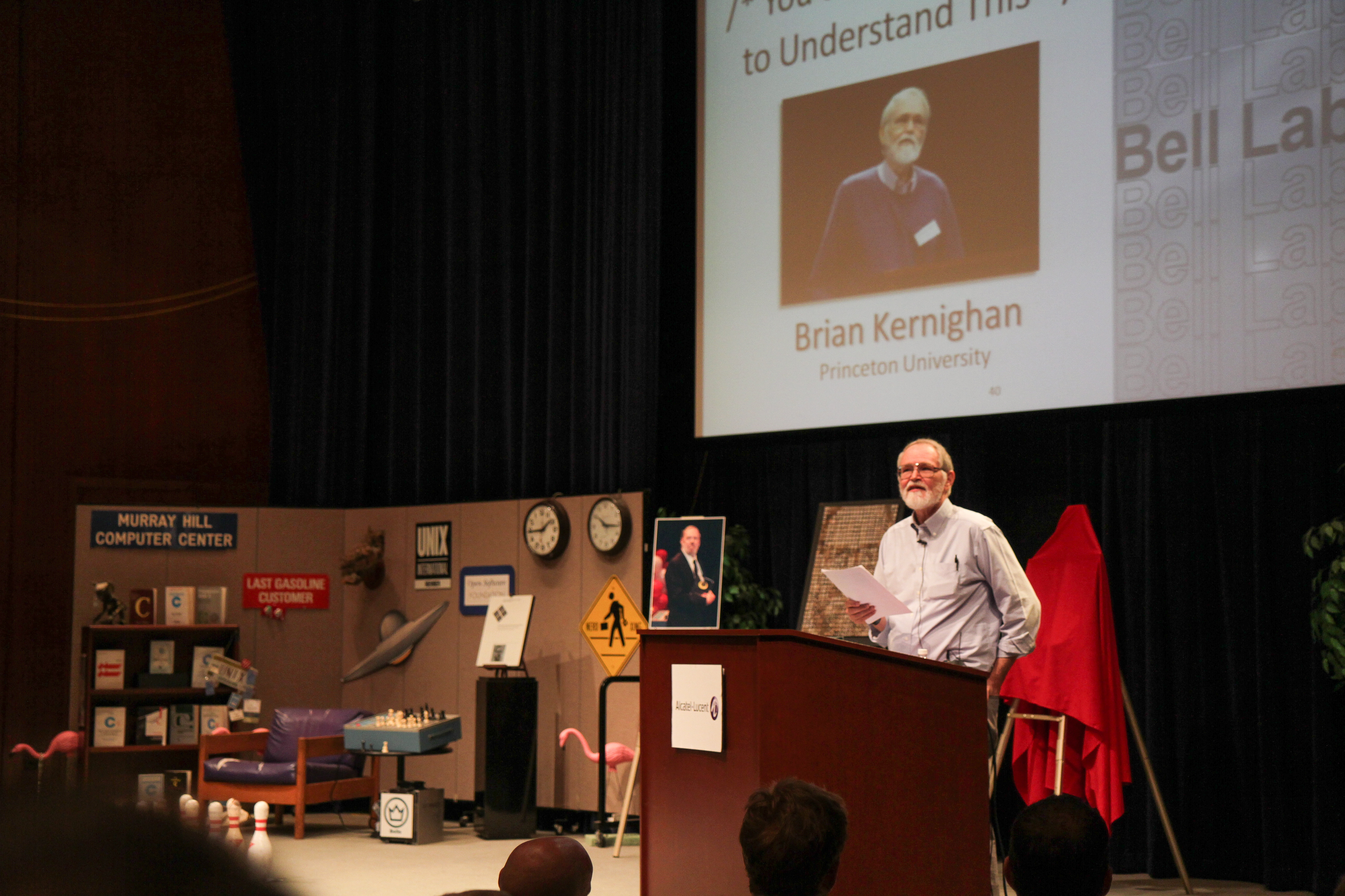 Brian Kernighan speaks at a tribute to Dennis Ritchie at Bells Labs.